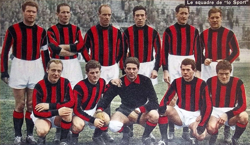 Milan, San Siro, January 31, 1954. A line-up of A.C. Milan took to the field in the home victory versus A.C. Udinese (2-1), valid for the 18th round of the Italian Championship 1953–54 Serie A. From left to right, standing: O. Tognon (captain), A. Silvestri, A. Piccinini, M. Bergamaschi, N. Liedholm, G. Nordhal; crouched: J. Sørensen, A. Longoni, L. Buffon, F. Zagatti, A. Frignani.